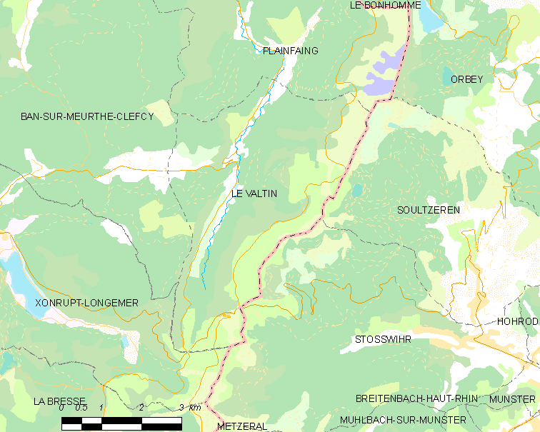 Map of French municipality Le Valtin